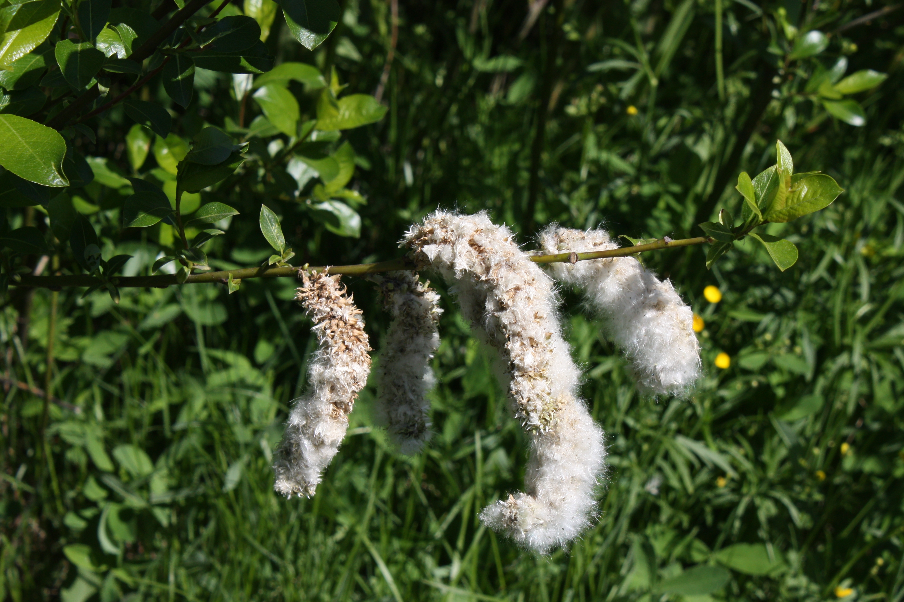 Tea-leaved Willow (Salix phylicifolia) fruiting in the spring - Kerava, Finland